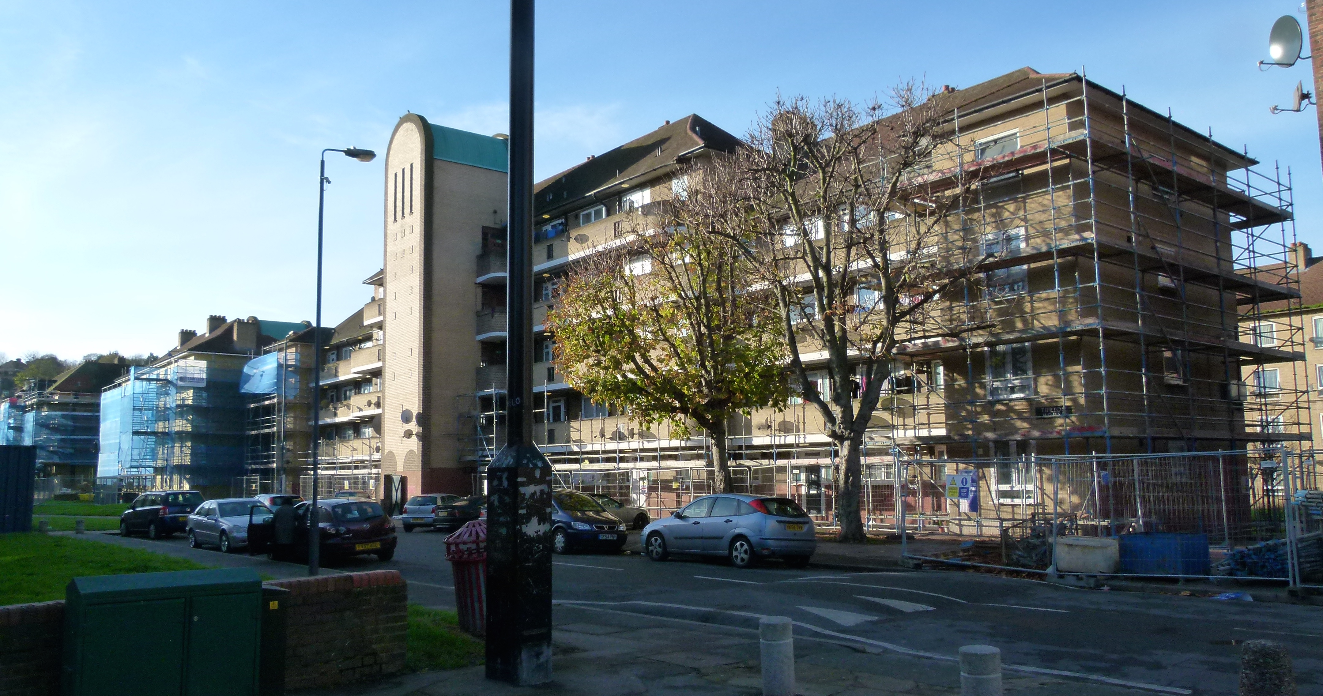 View of Barnfield Road in the Barnfield Estate, a 1930s housing estate undergoing renovation work in 2015, Woolwich-Plumstead, South East London.